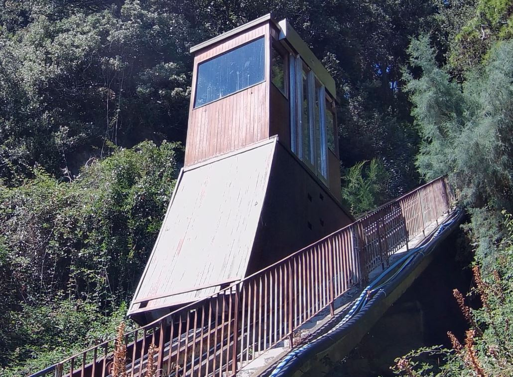 Arenzano Funicular entering lower station